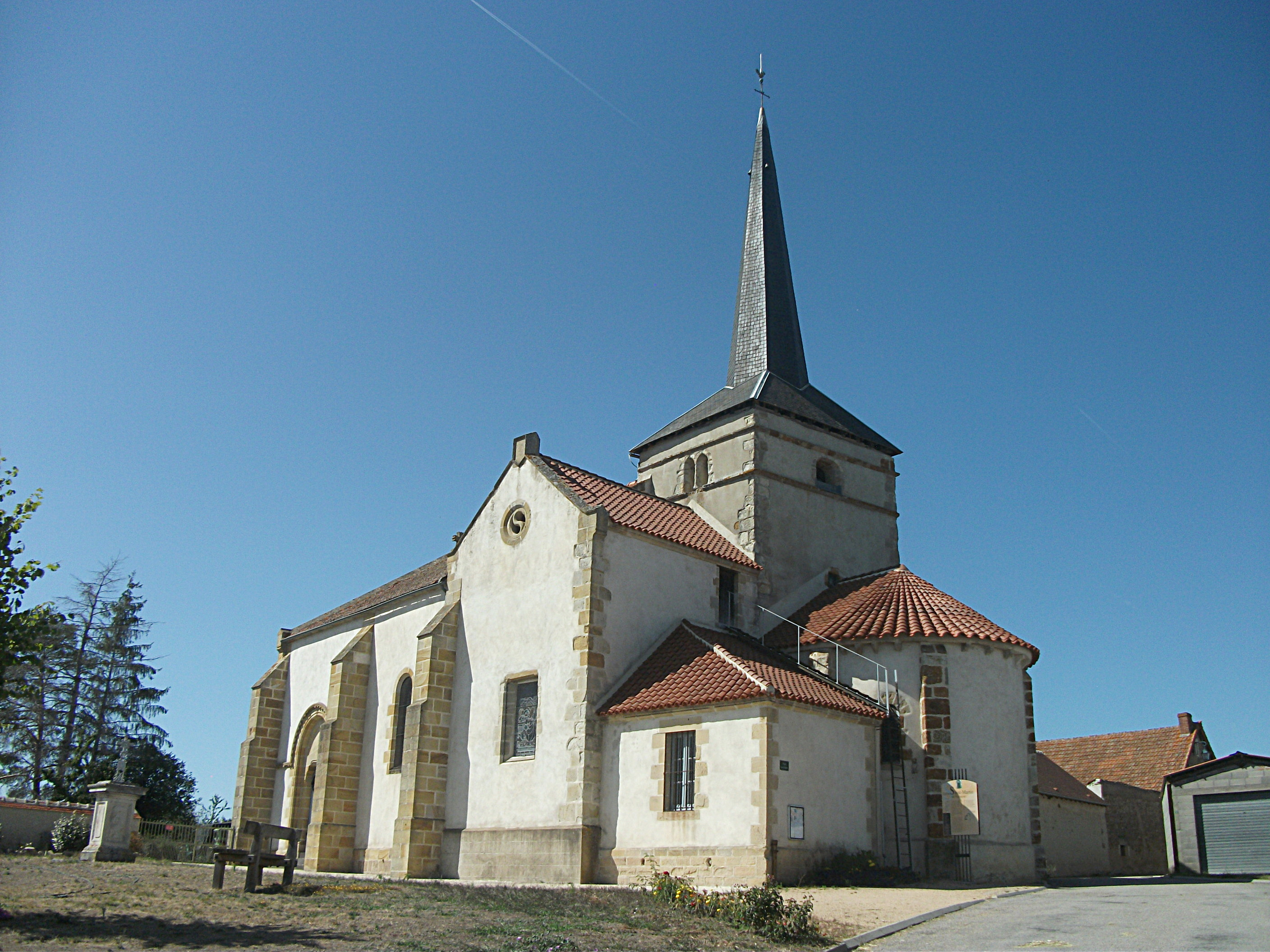 Church St. Martin in Vernusse, Allier, Auvergne-Rhône-Alpes, France. [18987]